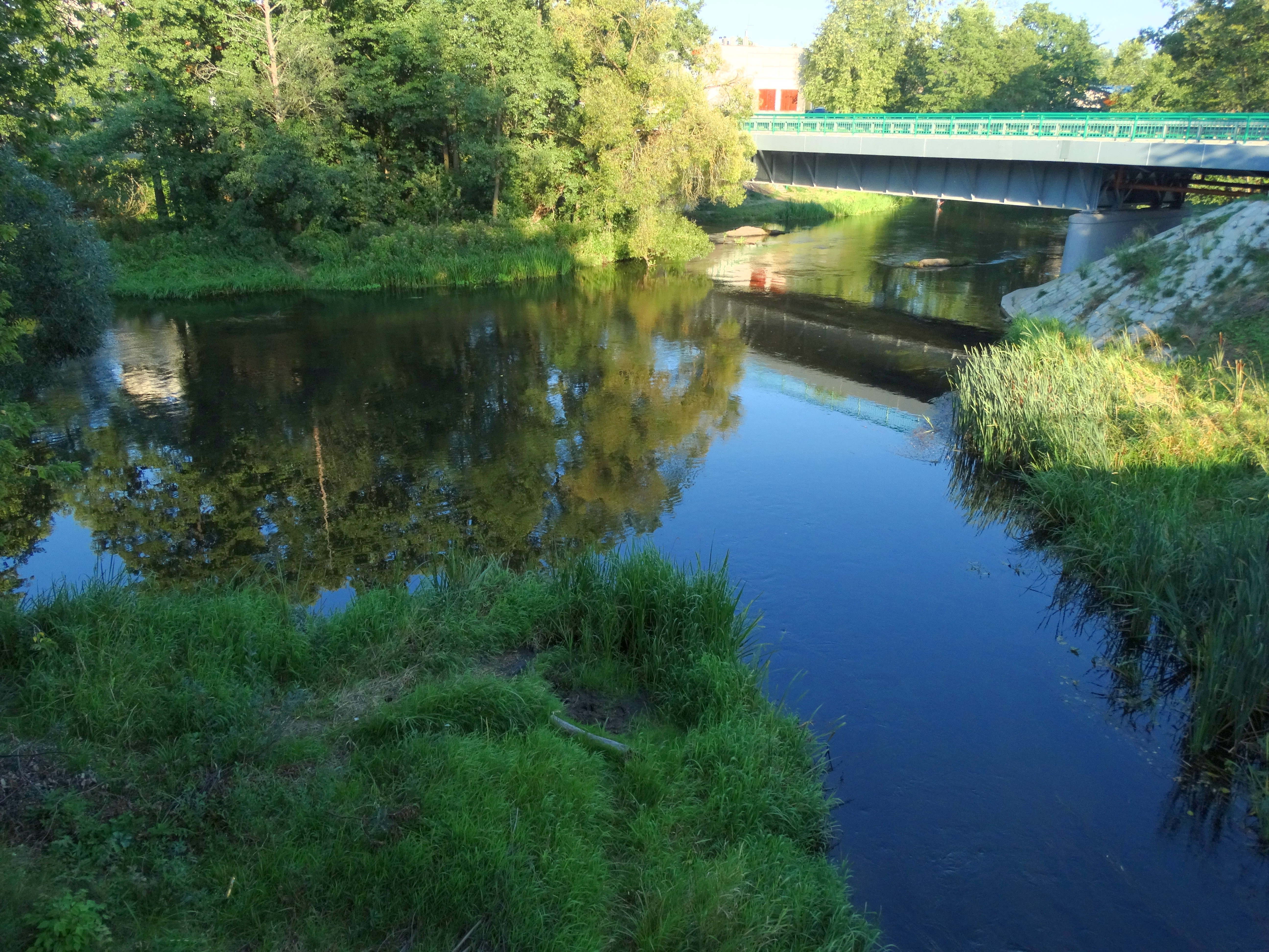 Confluence of Žeimena and Dubinga Rivers, Pabradė, Švenčionys District, Lithuania